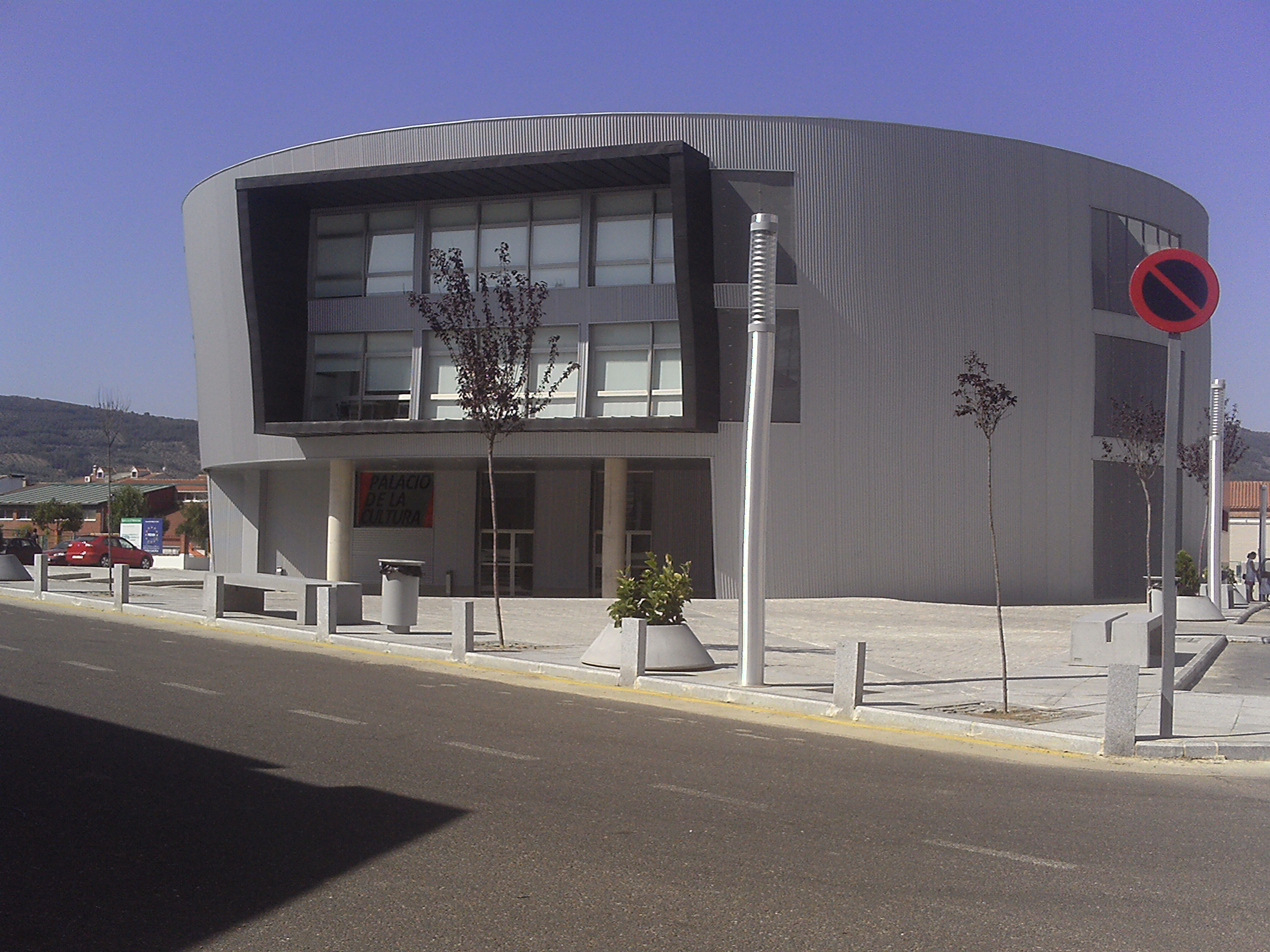 Palace of culture